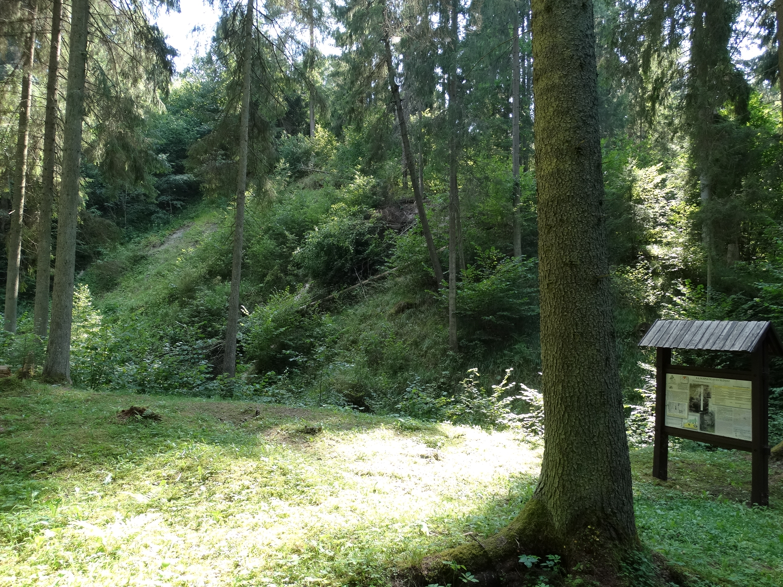 Exposure by Šlavė River, Anykščiai district, Lithuania